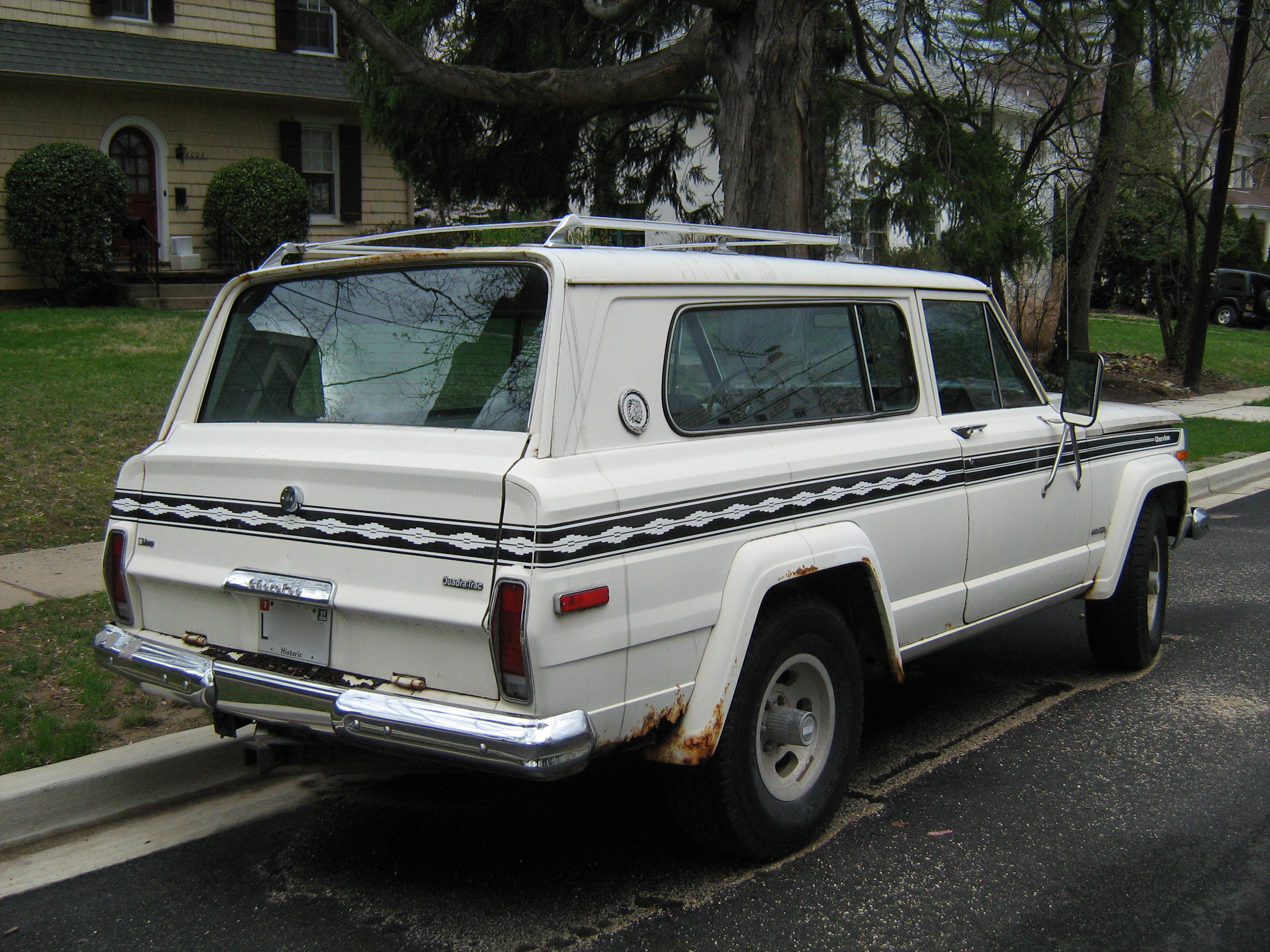 Jeep Cherokee Chief S. Full-size "SJ" model.